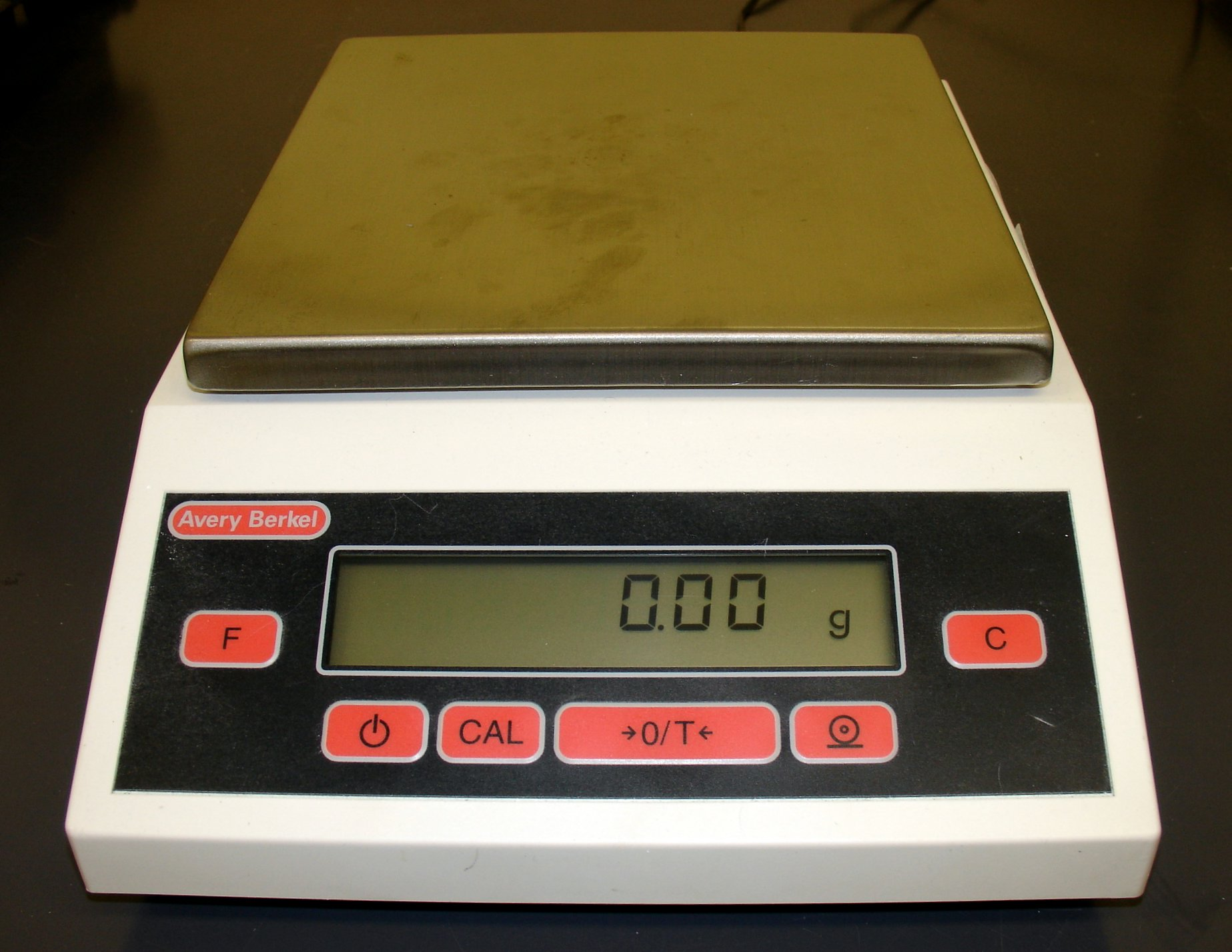 Electronic (digital) weighing scale (laboratory balance) Laboratoryjna waga elektroniczna (cyfrowa)